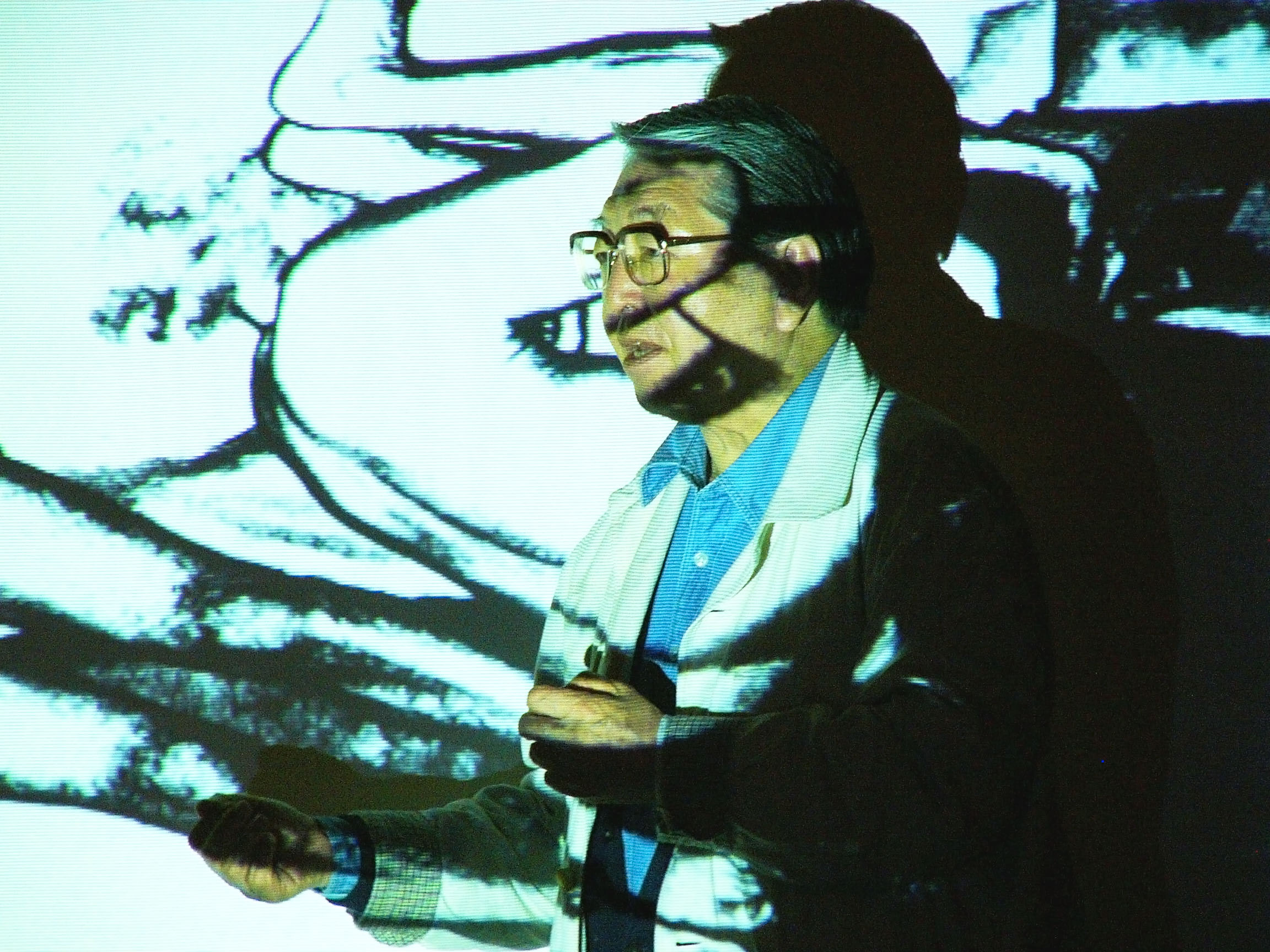 Eikoh Hosoe, Japanese photographer and filmmaker during FotoArtFestival 2005, Bielsko-Biala, Poland